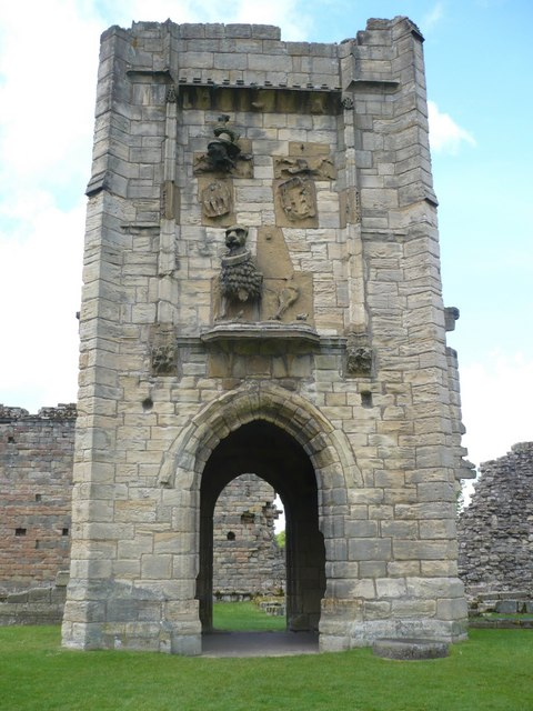 The lion gate, Warkworth Castle